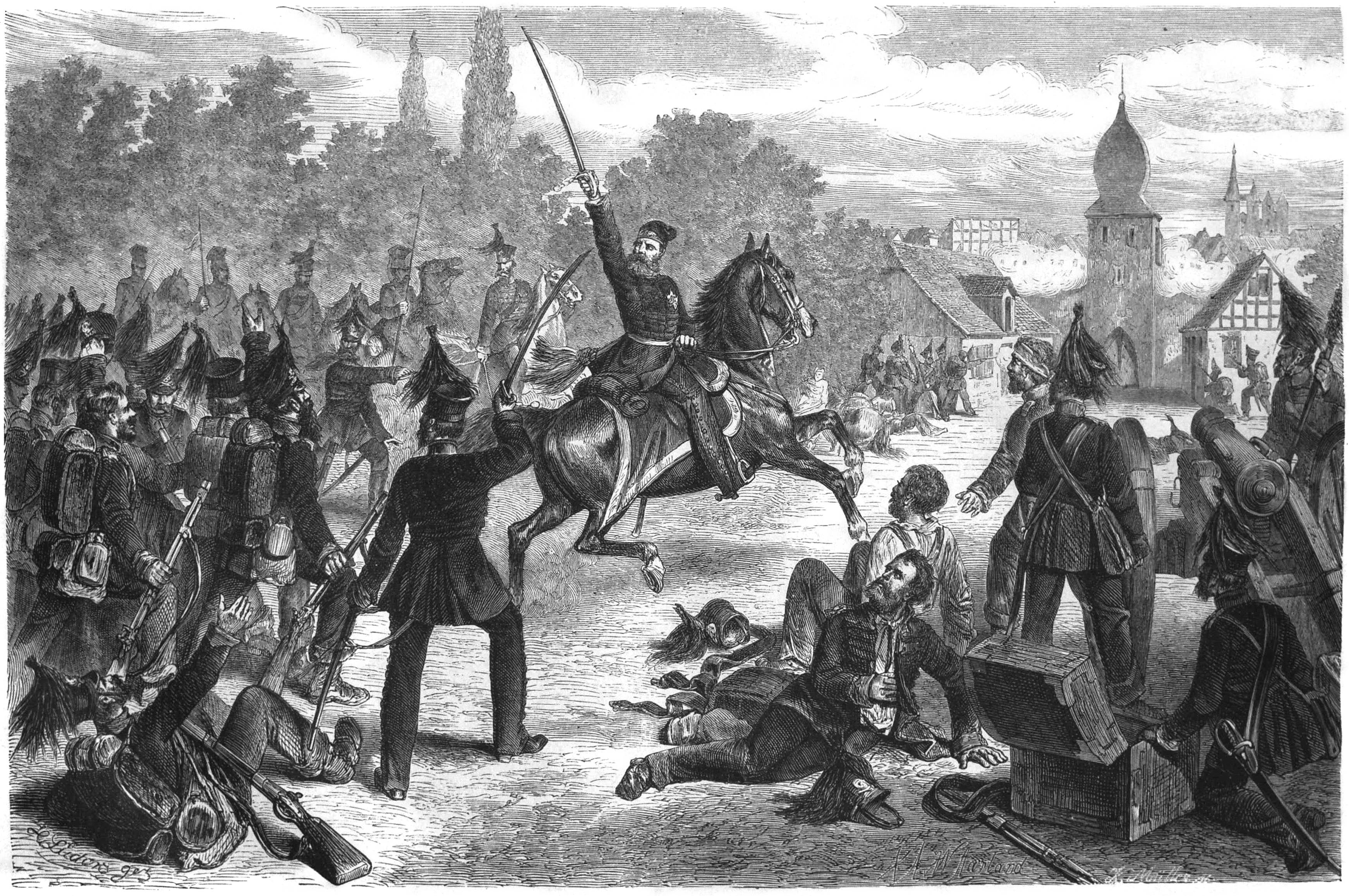 caption: "Herzog Wilhelm von Braunschweig bei dem Sturm auf Halberstadt."